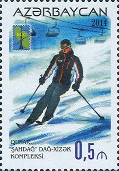 N 1172 - 50 qapik – There are pictured the downhill skier in the “Shahdag” ski resort in Qusar on the stamp.